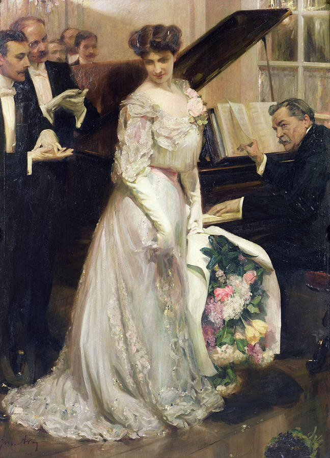 The Swanns